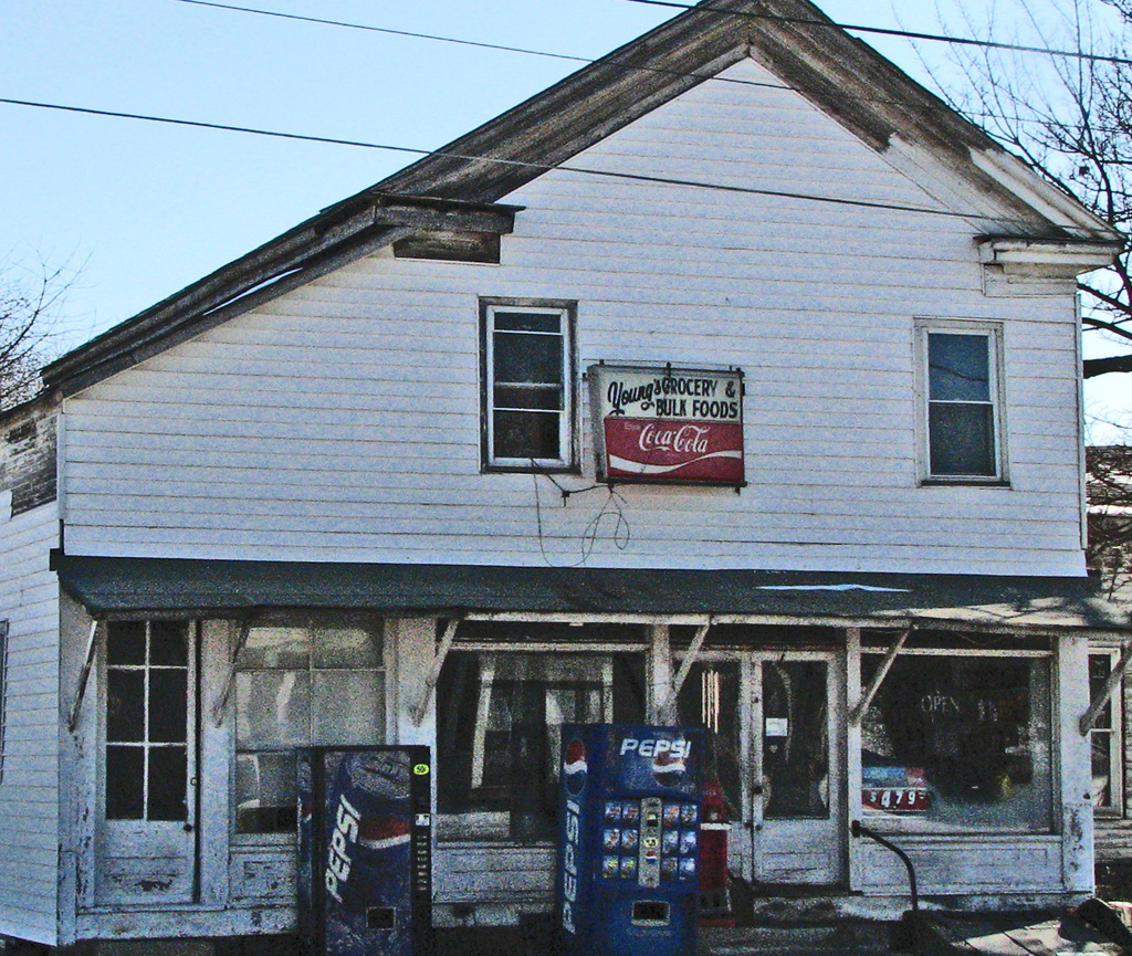 Country Store. Seen at Adamsville, Ohio along SR93 in Muskingum County.